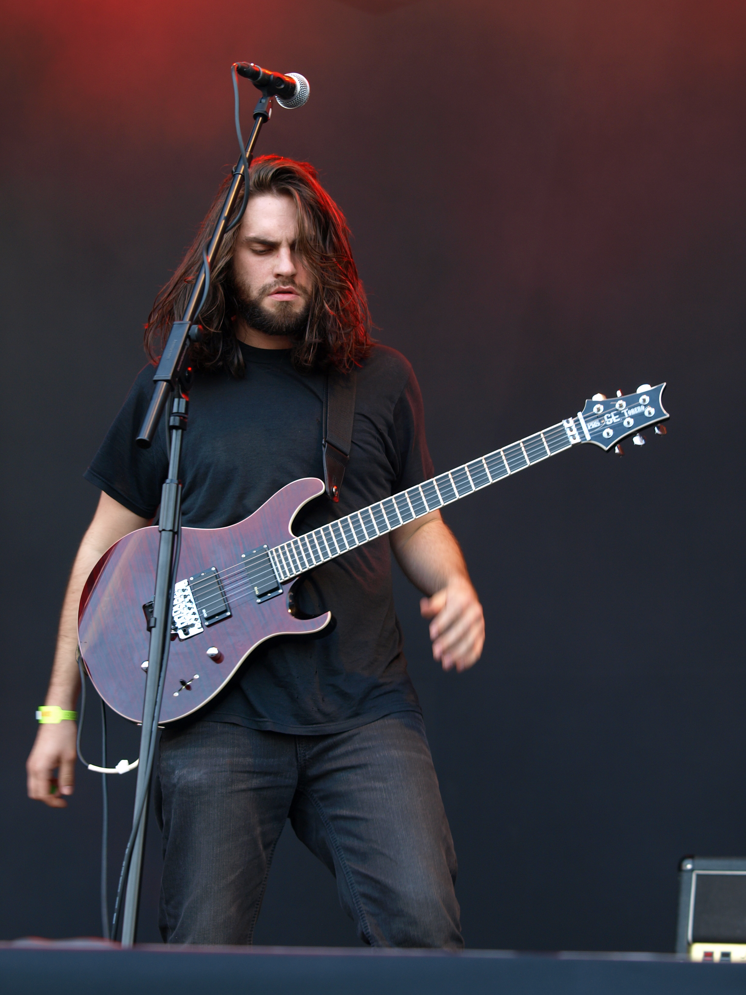 US black metal band Von at Tuska Open Air 2013